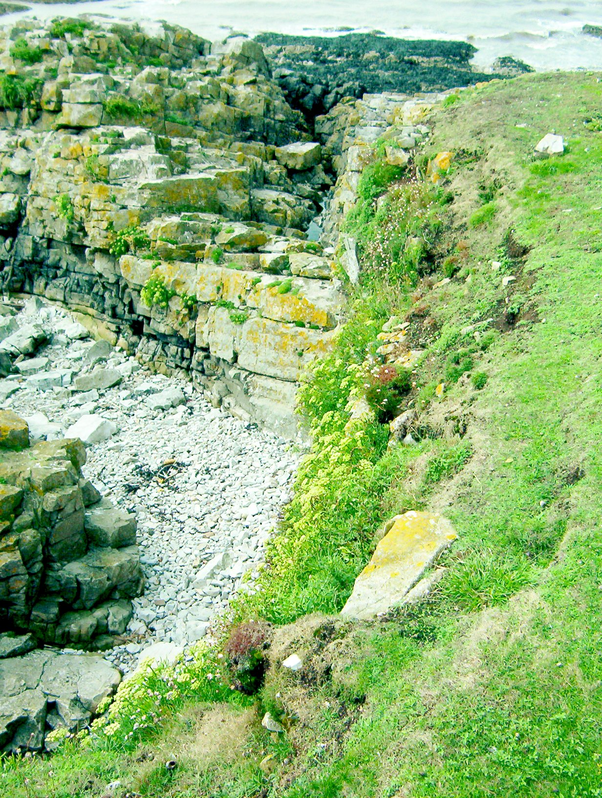 Example of Flat Holm Geology